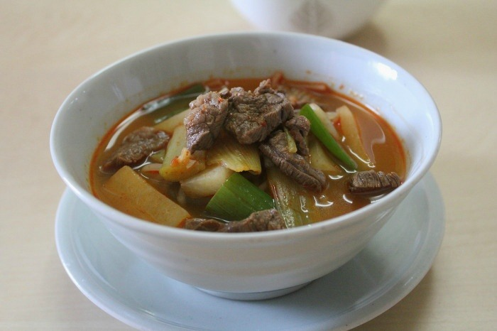 Soegogi-mu-guk